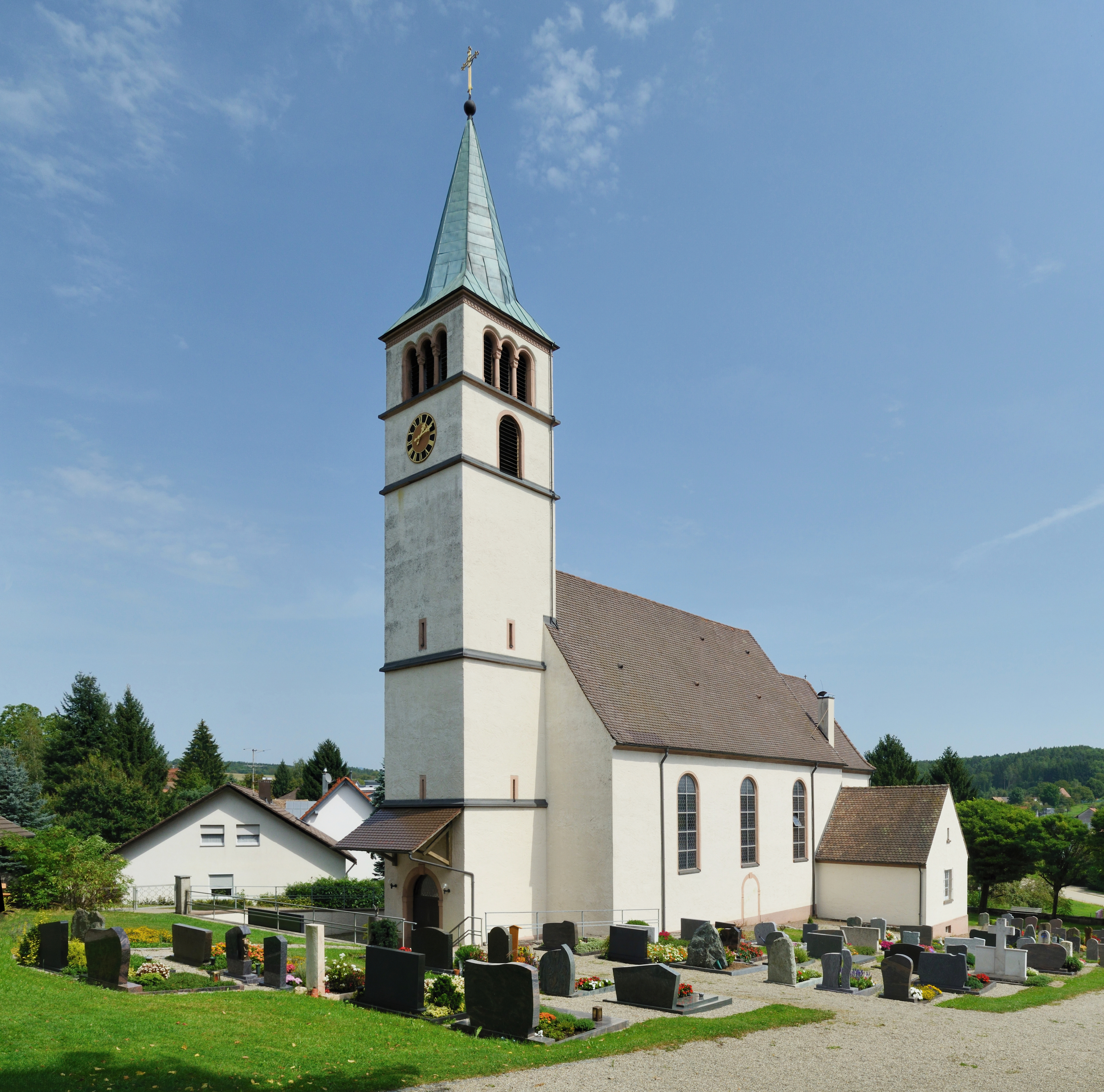 Rheinfelden-Minseln: Peter and Paul Church